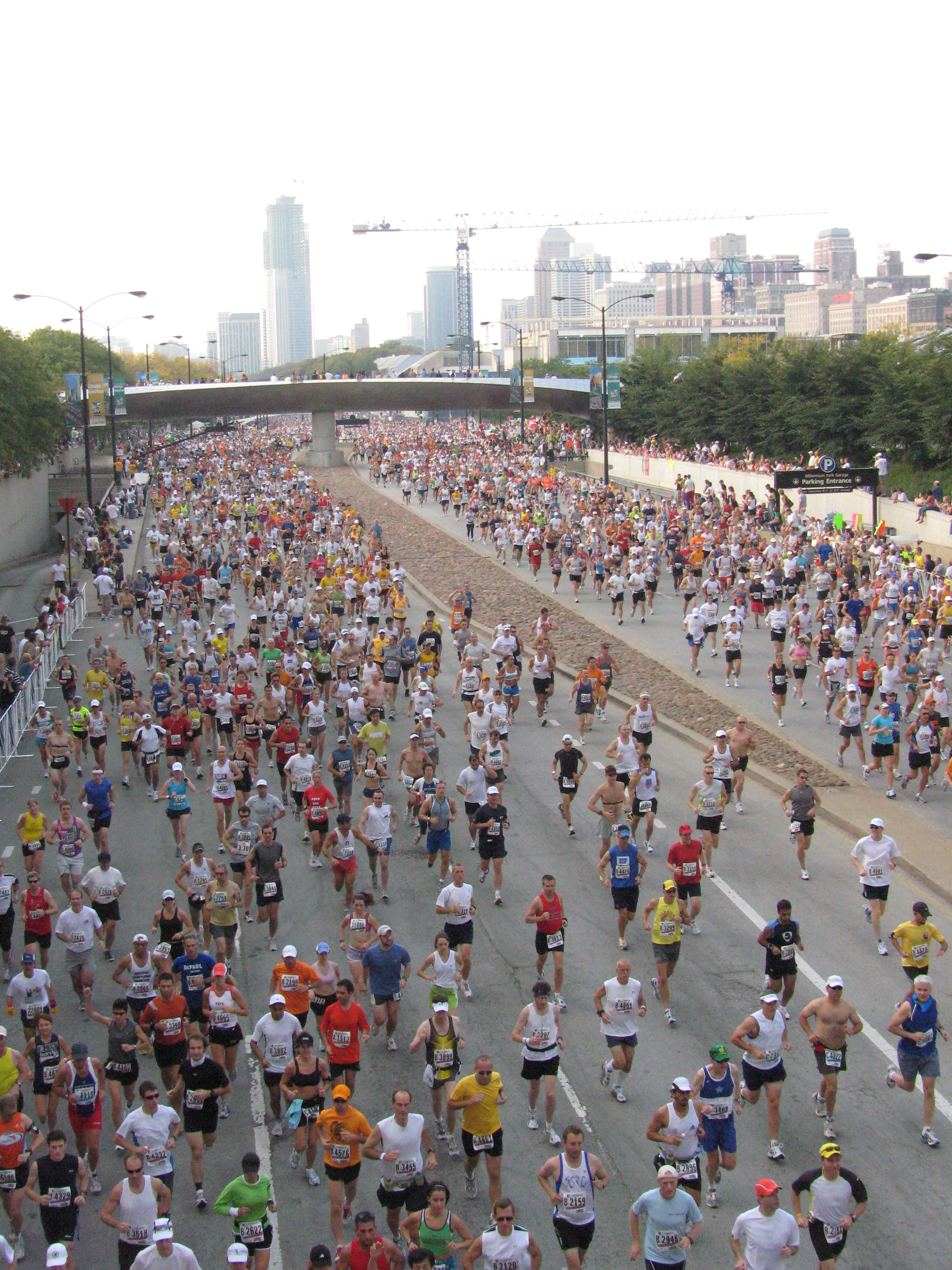 Chicago Marathon